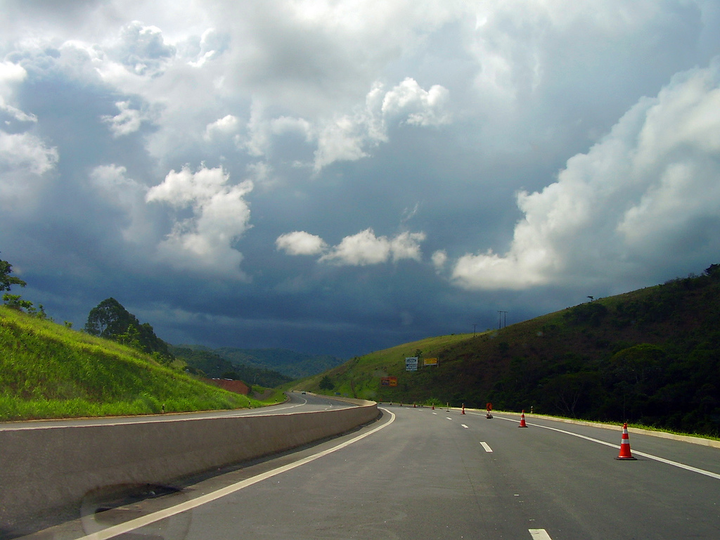 Road to Juiz de Fora, Minas Gerais, Brazil.